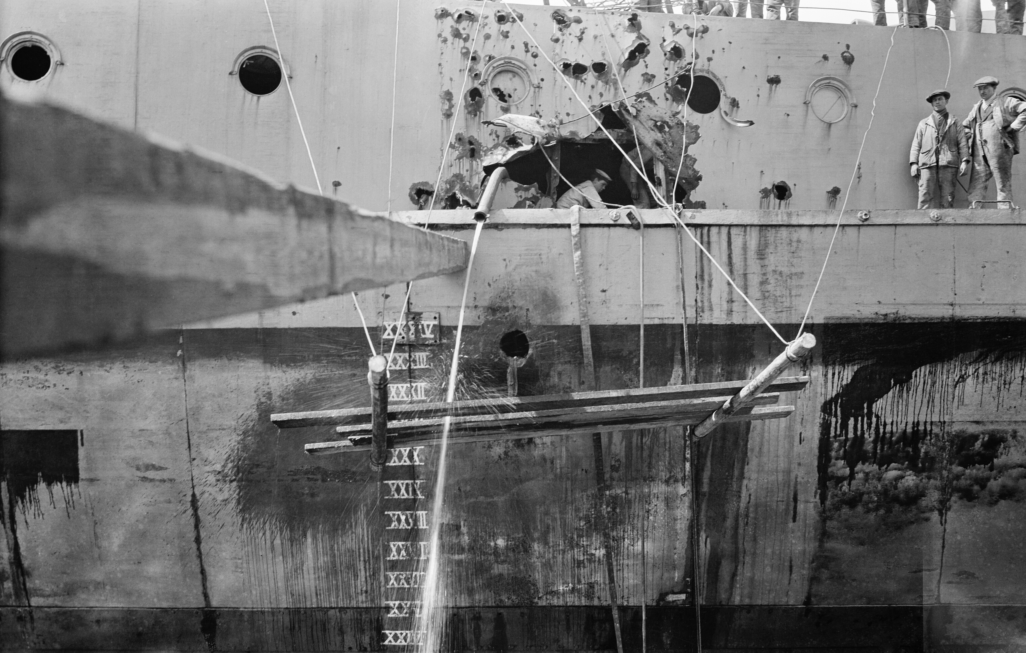 Photograph showing the forward port side of HMS Warspite in dry dock showing damage caused by a German shell at the Battle of Jutland.